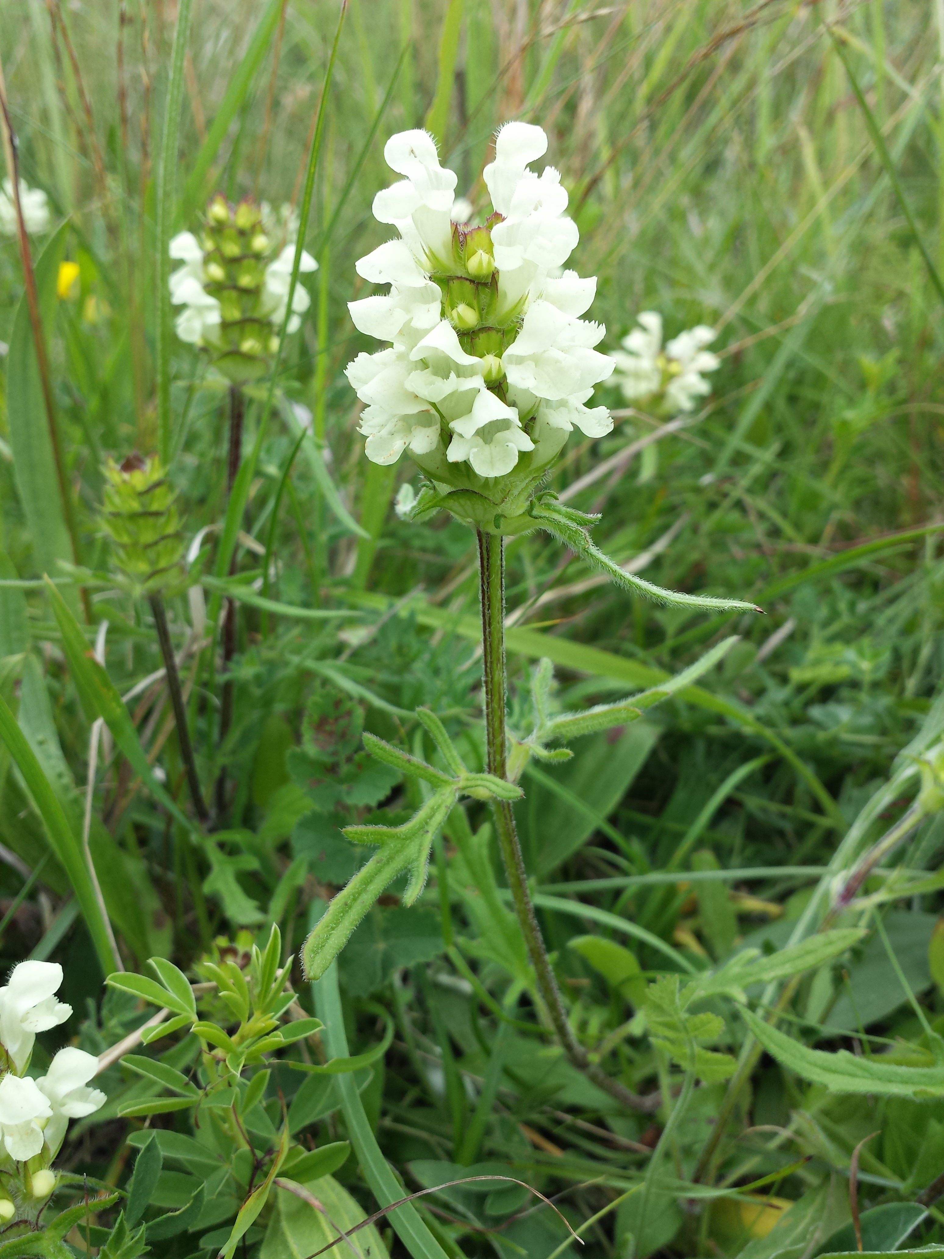 Habitus Taxonym: Prunella laciniata ss Fischer et al. EfÖLS 2008 ISBN 978-3-85474-187-9 Location: to the east of Neusiedl am See, district Neusiedl am See, Burgenland, Austria - ca. 160 m a.s.l. Habitat: semi-dry grassland